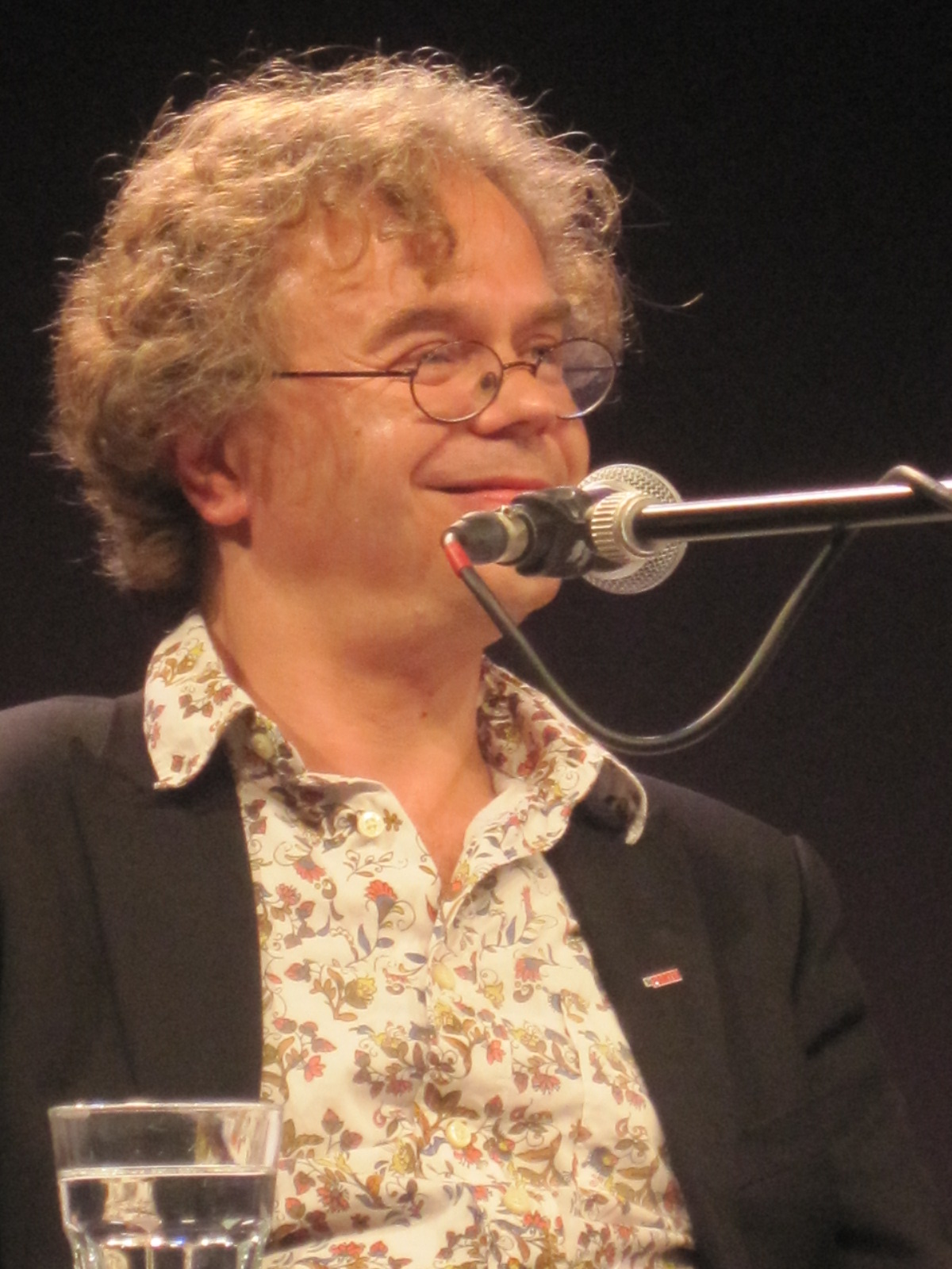 Mark-Stefan Tietze, german journalist and satirist